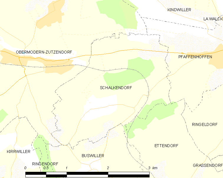 Map of French municipality